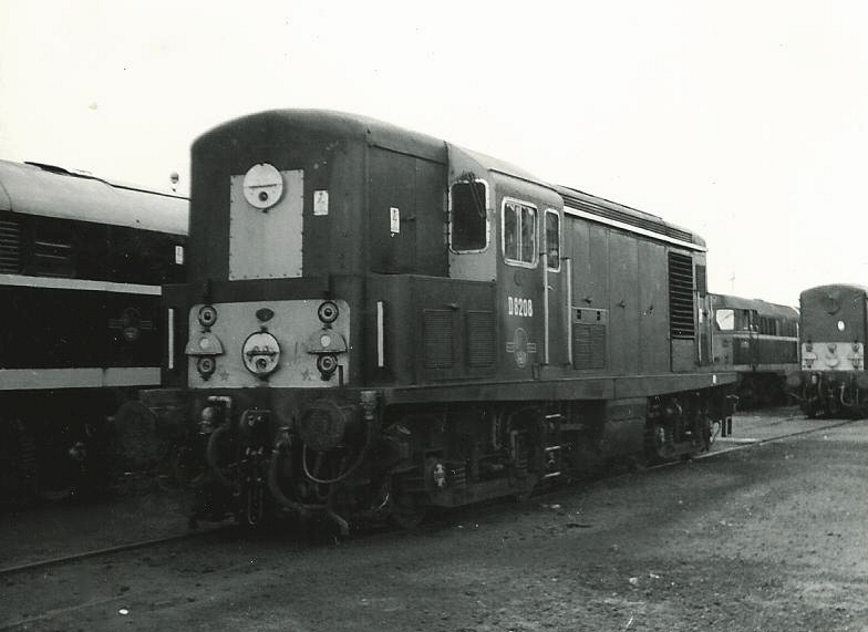 British Thomson-Houston Type 1 (later Class 15), Pilot Scheme batch, 800hp Bo-Bo No.D8208 in green livery with small yellow warning panel and, unusually, a yellow warning square above at Stratford MPD, 07/66. Scanned photograph taken with a Kowa SET camera.